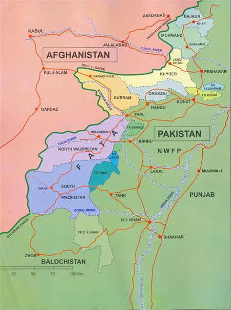 Jar afrido na sham, Federally Administered Tribal Areas (FATA)